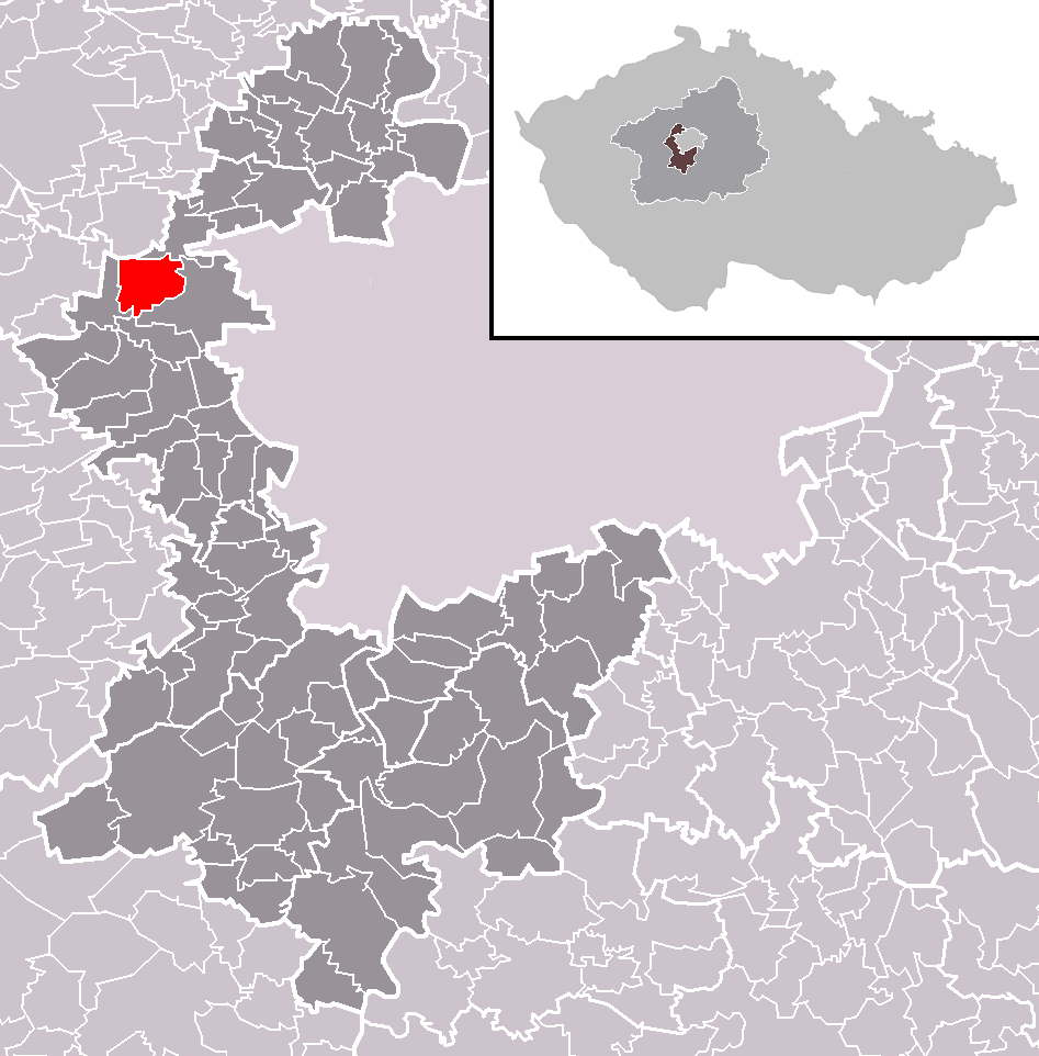 Location of Jeneč municipality within Prague-West District and administrative area of Černošice as a Municipality with Extended Competence.